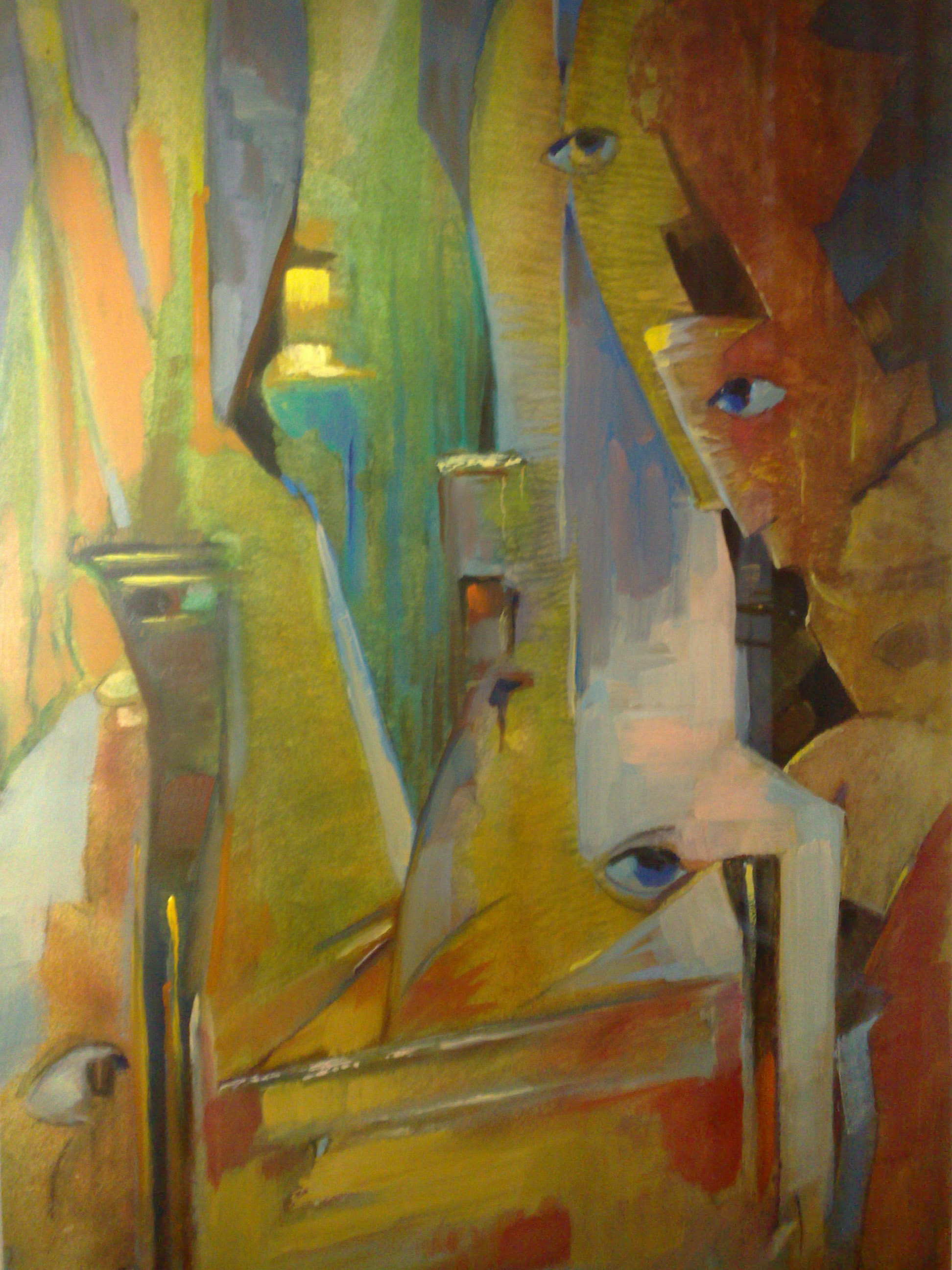 Sommariva: Phantoms and eyes always looking you from Licurgo's paintings